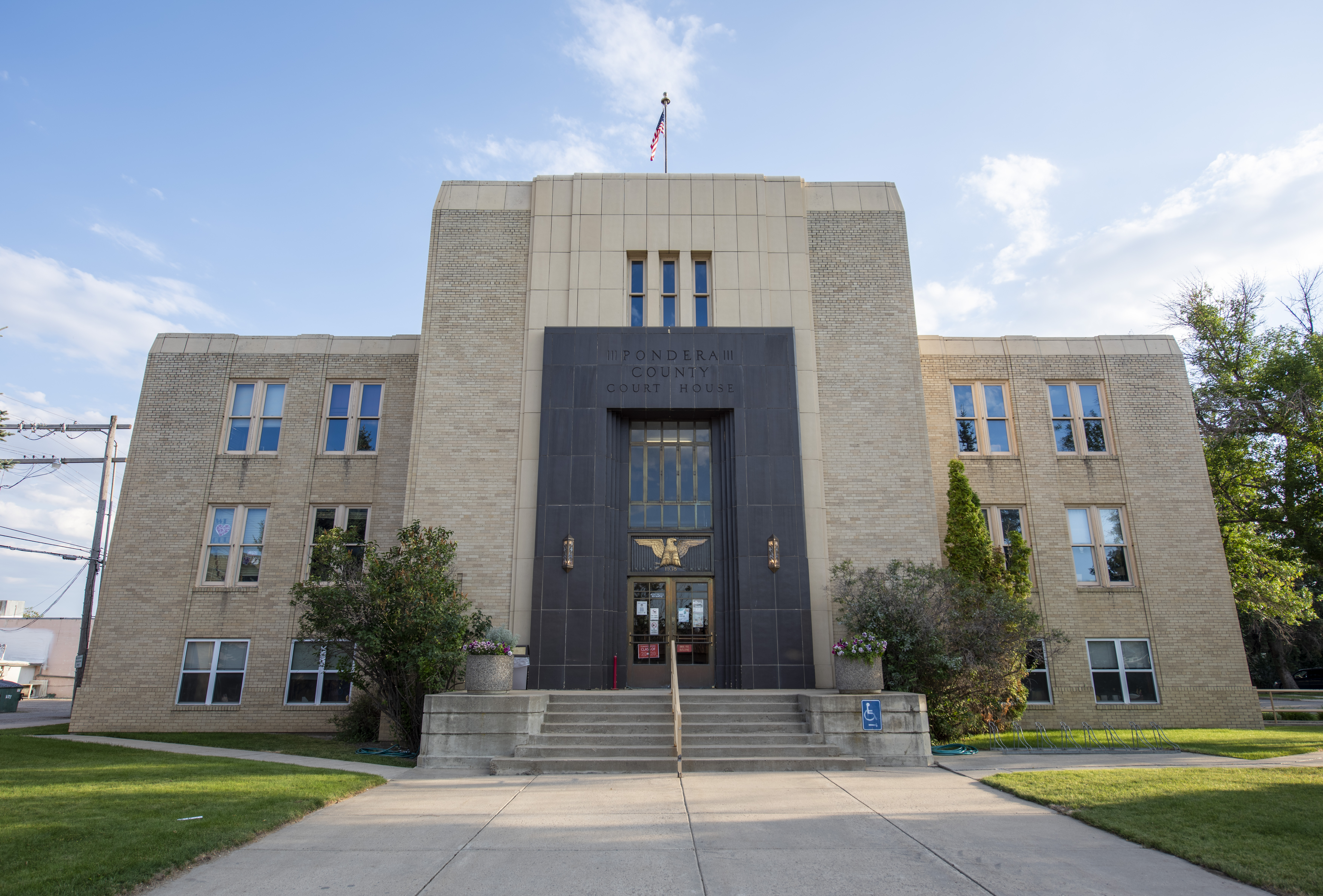 Photograph of the Pondera County Courthouse in Conrad, Montana. Image taken in July 2020.